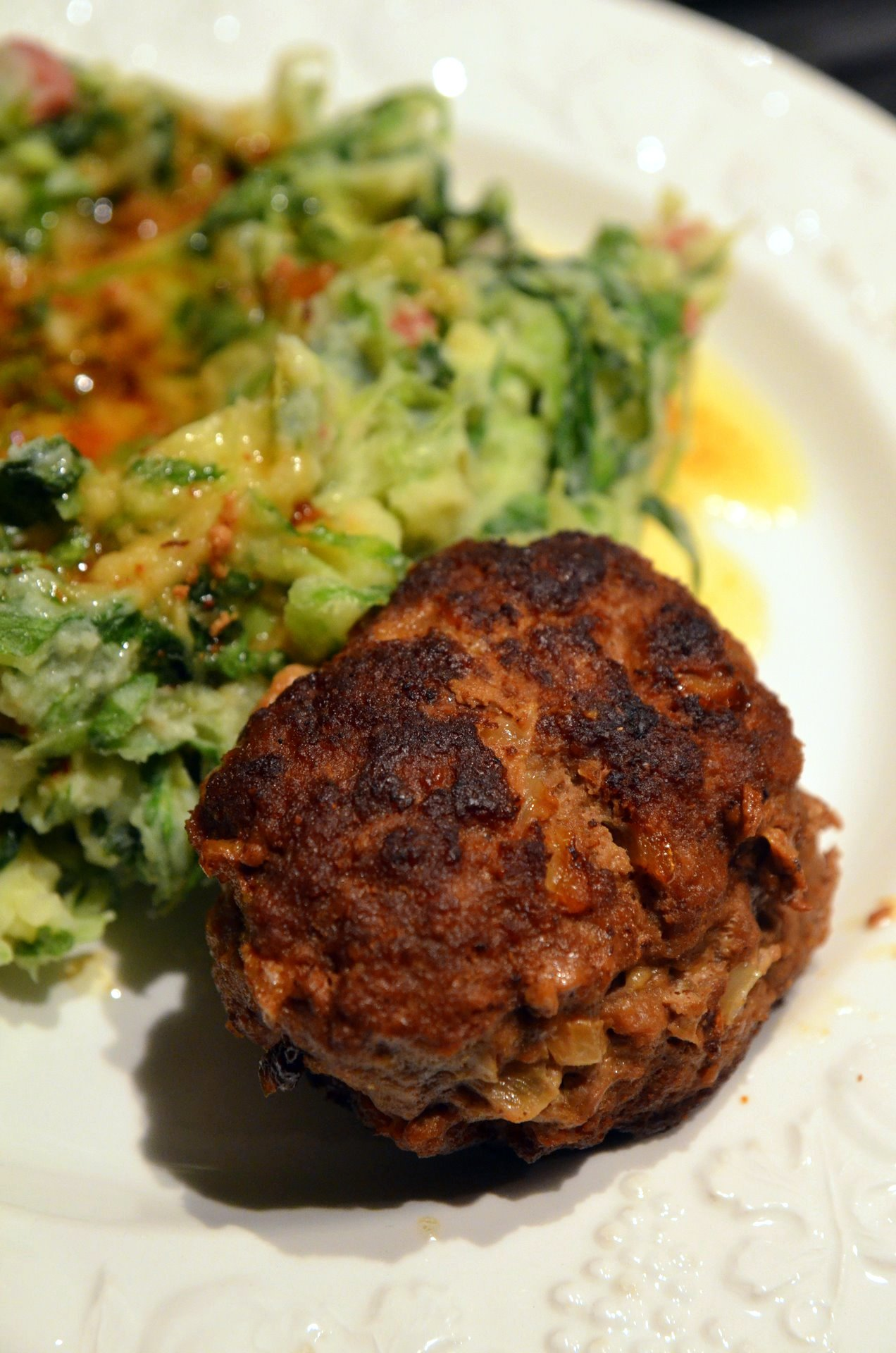 Gehaktbal met andijviestamppot en jus can be translated from Dutch into English as "meatball with a mash of endive and potatoes served with gravy". Traditional Dutch meal on a cold day.